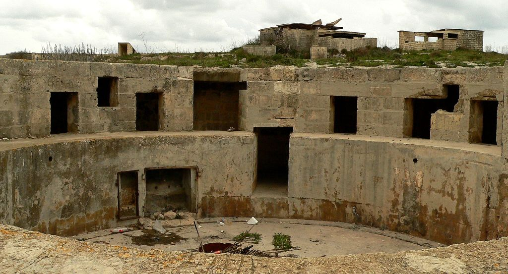 The Fort Campbell in Malta is a ruin. It is located in the north of Malta, near the town of Mellieha. You can use this images for free. But a link to the - I would be happy :)